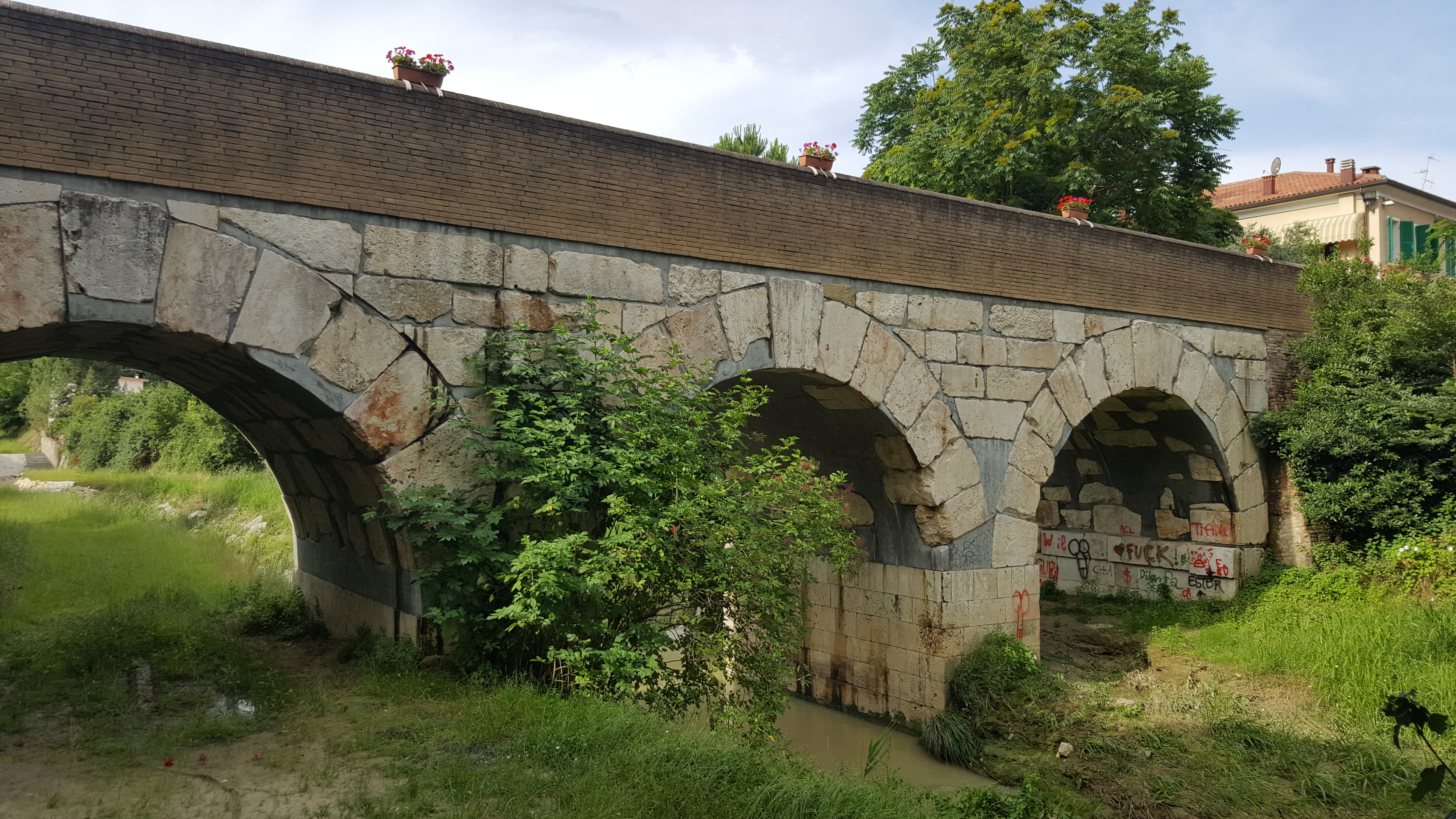 This is a photo of a monument which is part of cultural heritage of Italy.